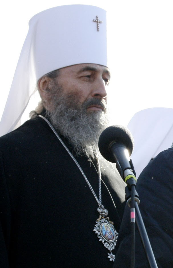 Onuphrius (Berezovsky), Ukrainian priest, bishop of Chernivtsi and Bukovyna of the Ukrainian Orthodox Church (Moscow Patriarchate)